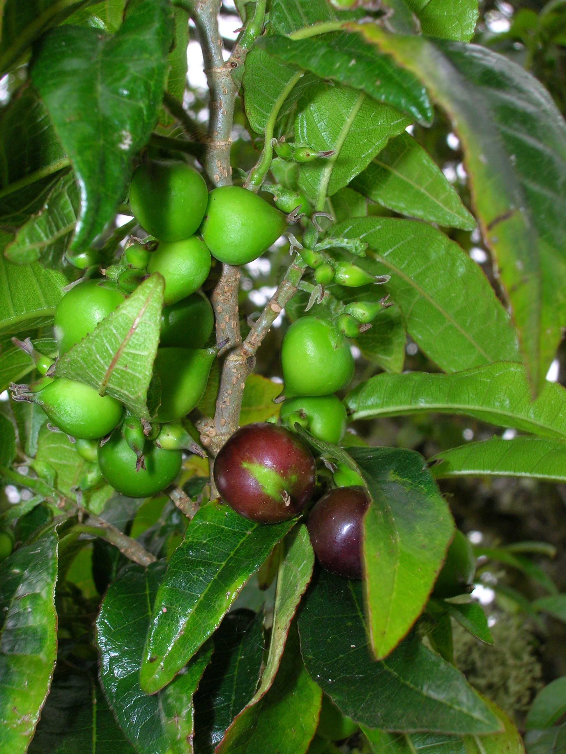 Streblus pendulinus (fruit). Location: Maui, Auwahi